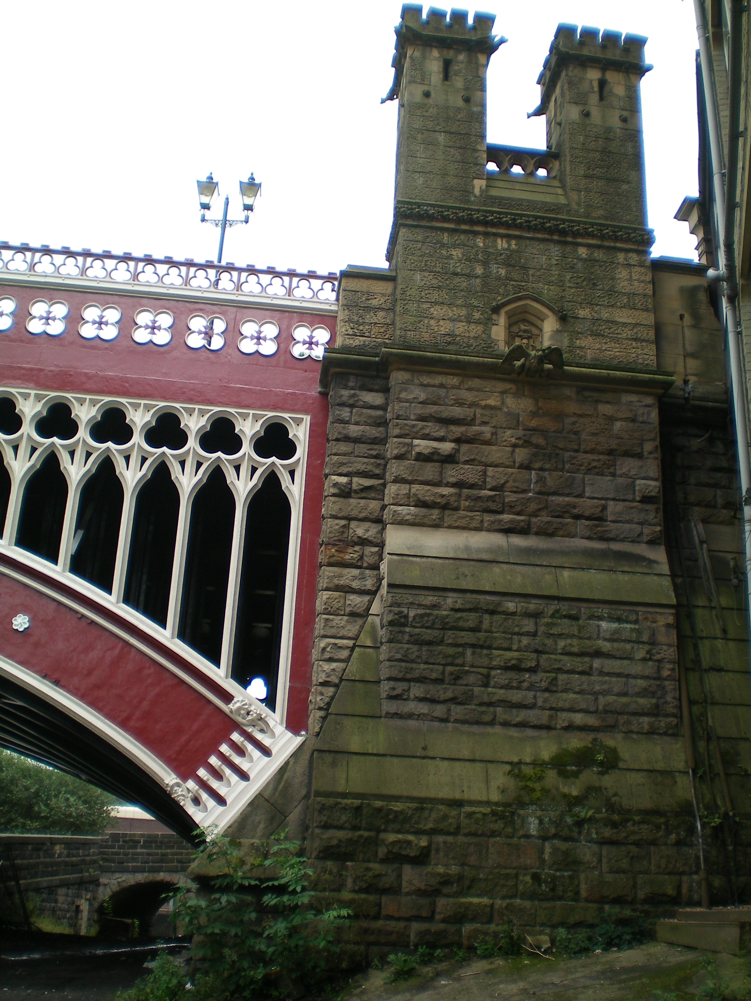 North Bridge and modern flyover, Halifax, West Yorkshire, England.